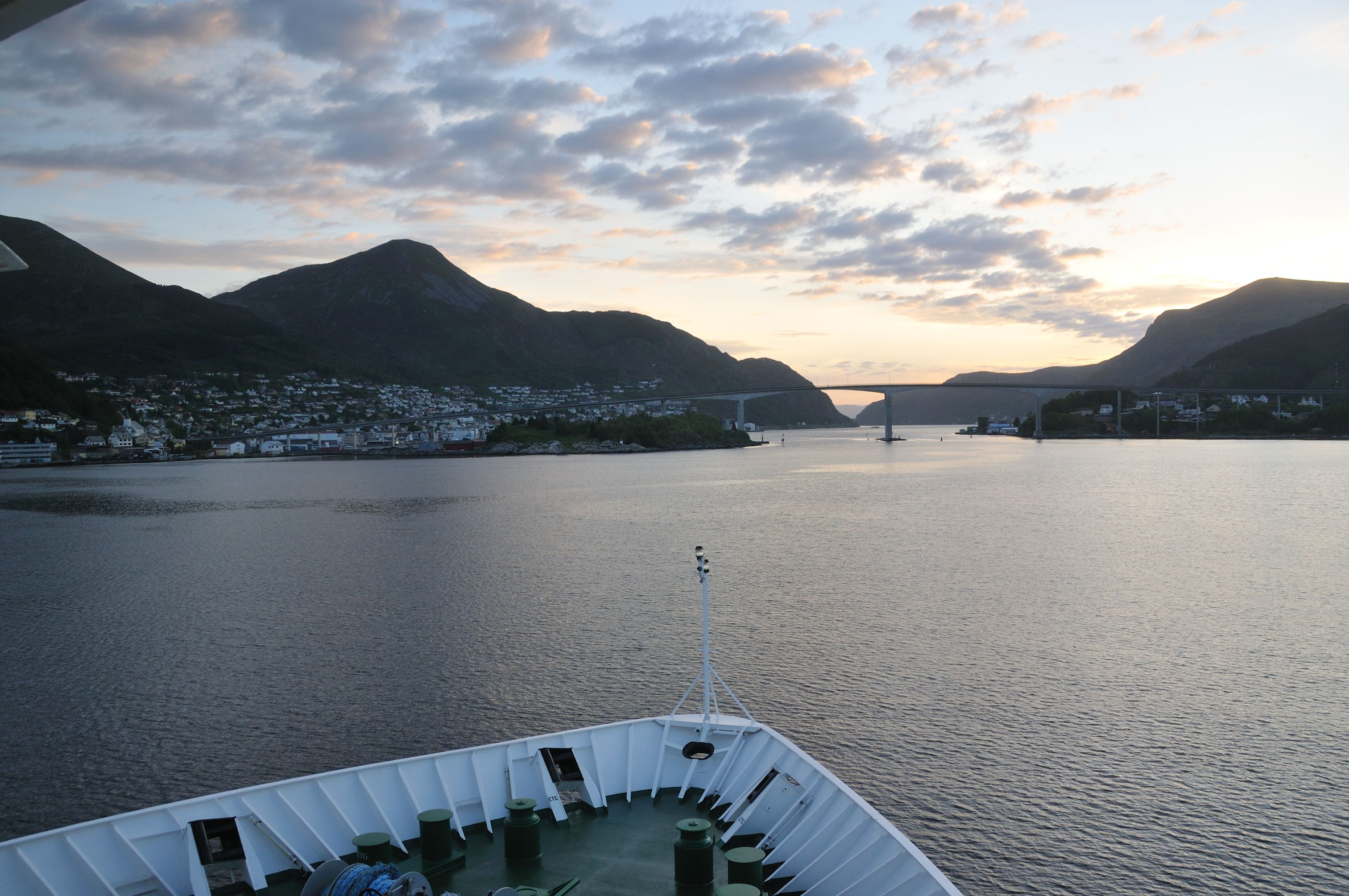 Måløy and Måløybrua seen from the South